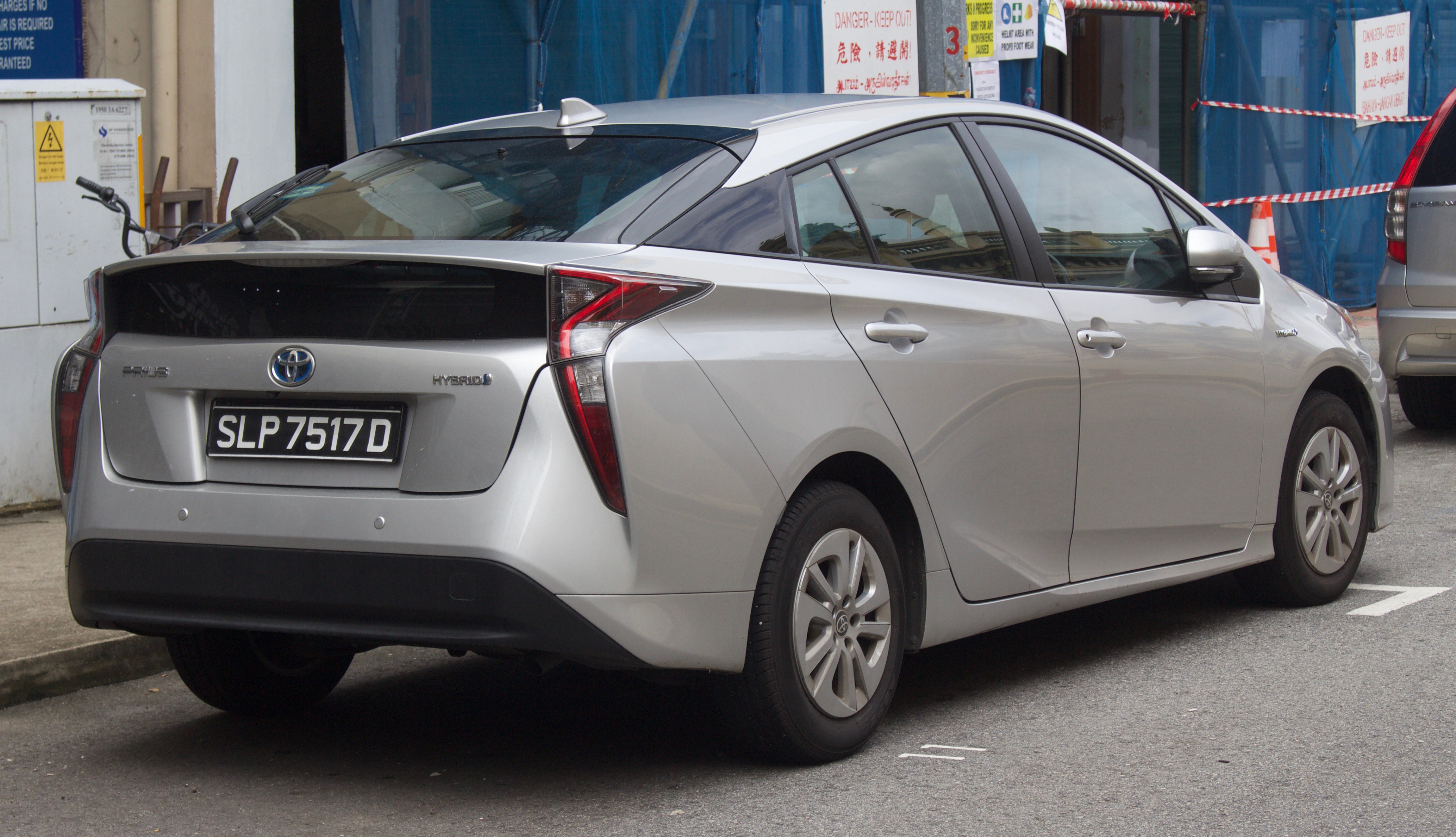 2017 Toyota Prius (ZVW50R) 1.8S sedan. Photographed in Singapore.